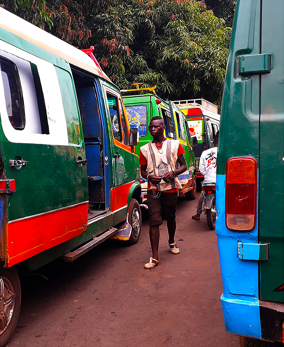 Cette photo est prise à Bamako rail-da.